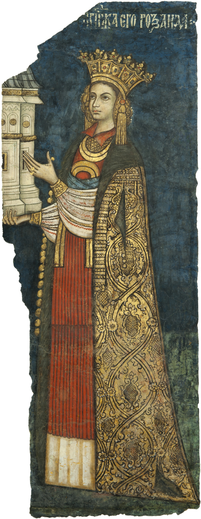 Ruxandra Basarab, daughter of Neagoe Basarab and Milica Despina. She married twice: first with Radu de la Afumati, who died in 1529. Later, she married again with Radu Paisie, who died in 1545. She died in the same year